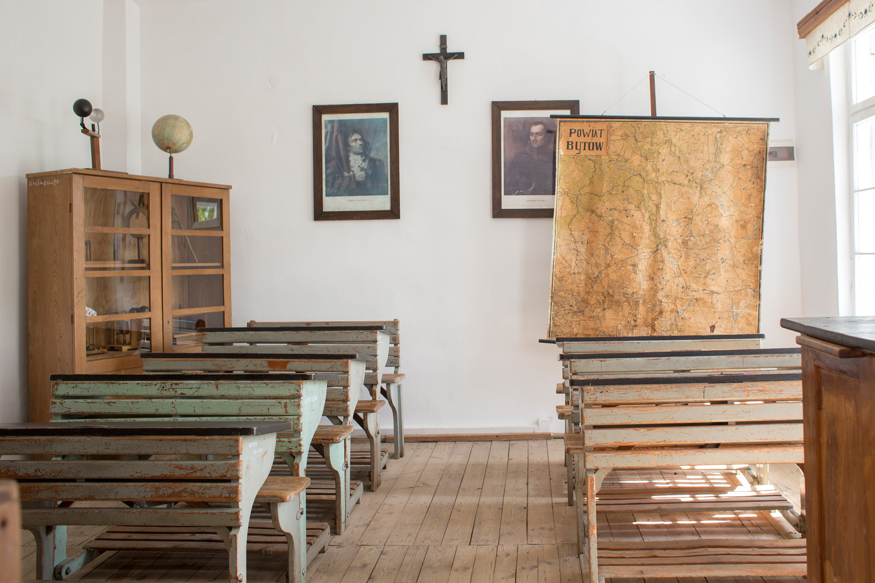 One of the exhibition halls